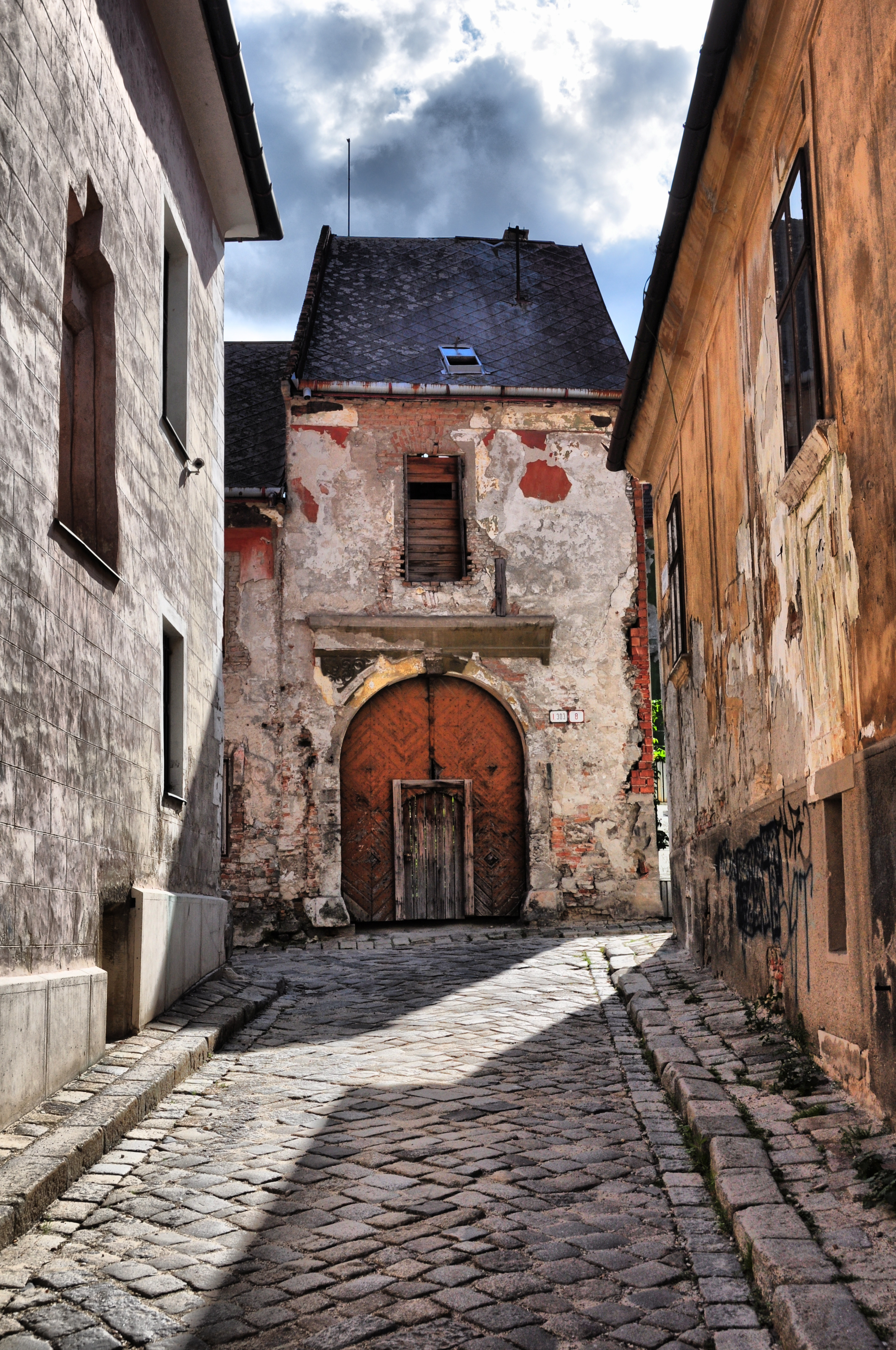 Another run-down building in the Old Town area of Bratislava, Slovakia.